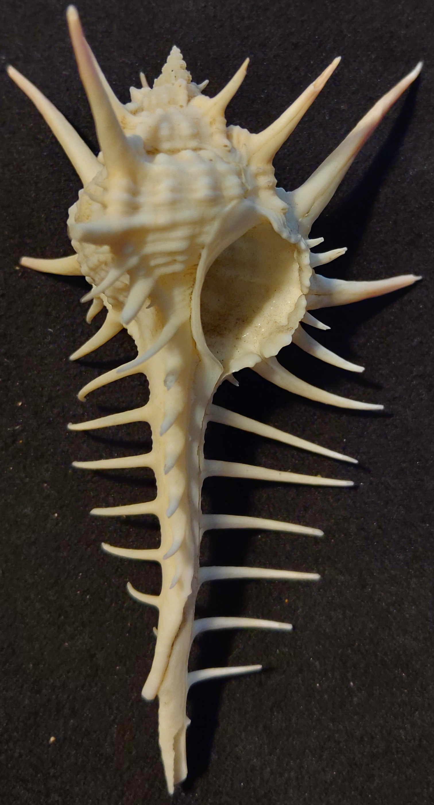 Murex Ternispira Front.